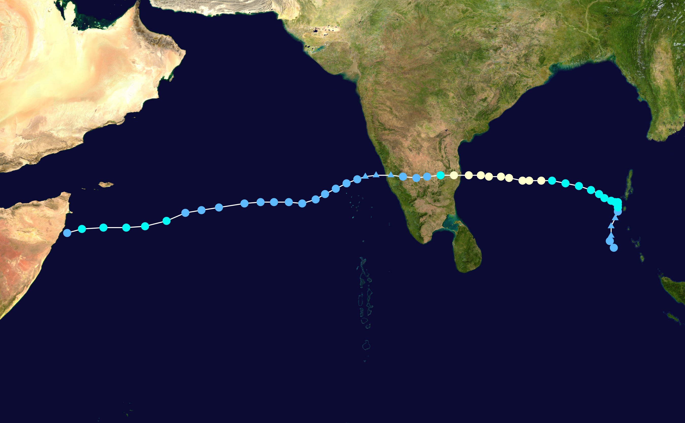 Track map of Very Severe Cyclonic Storm Vardah of the 2016 North Indian Ocean cyclone season. The points show the location of the storm at 6-hour intervals. The colour represents the storm's maximum sustained wind speeds as classified in the Saffir–Simpson scale (see below), and the shape of the data points represent the nature of the storm, according to the legend below. Saffir–Simpson scale Tropical depression≤38 mph≤62 km/h Category 3111–129 mph178–208 km/h Tropical storm39–73 mph63–118 km/h Category 4130–156 mph209–251 km/h Category 174–95 mph119–153 km/h Category 5≥157 mph≥252 km/h Category 296–110 mph154–177 km/h Unknown Storm type Tropical cyclone Subtropical cyclone Extratropical cyclone / Remnant low / Tropical disturbance / Monsoon depression